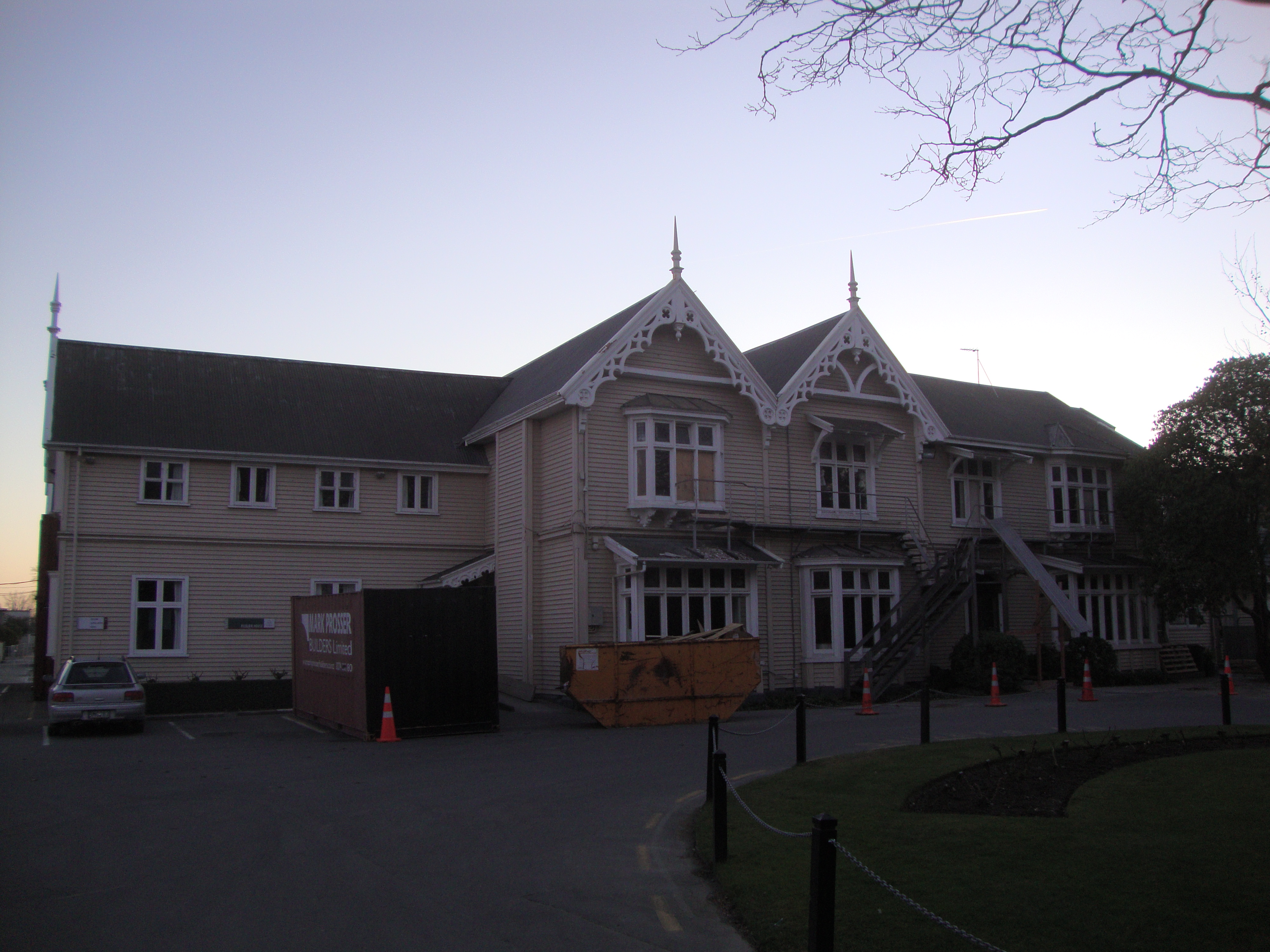 Warren House, Christchurch, in August 2011.